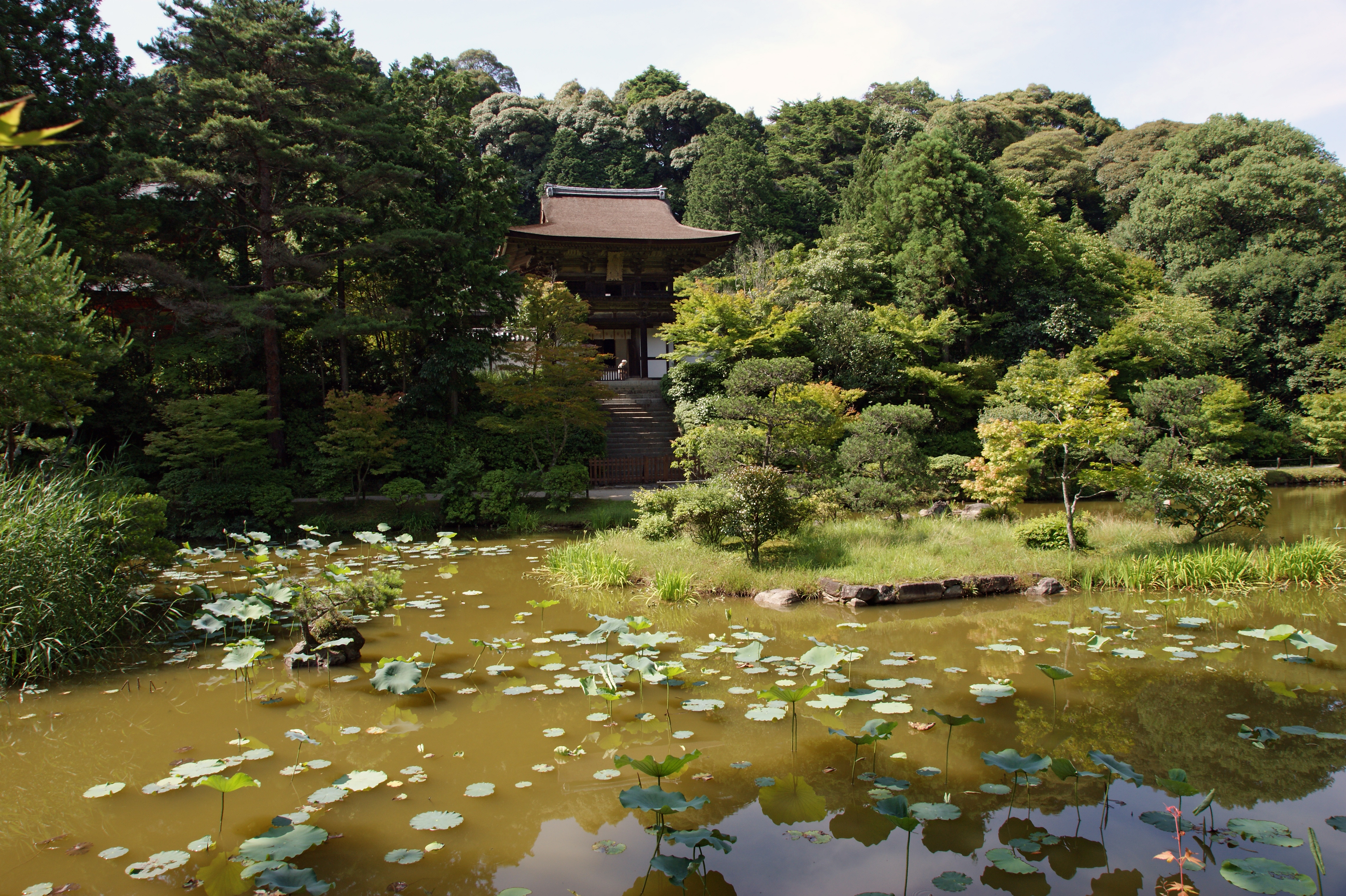 Enjoji in Nara, Nara prefecture, Japan